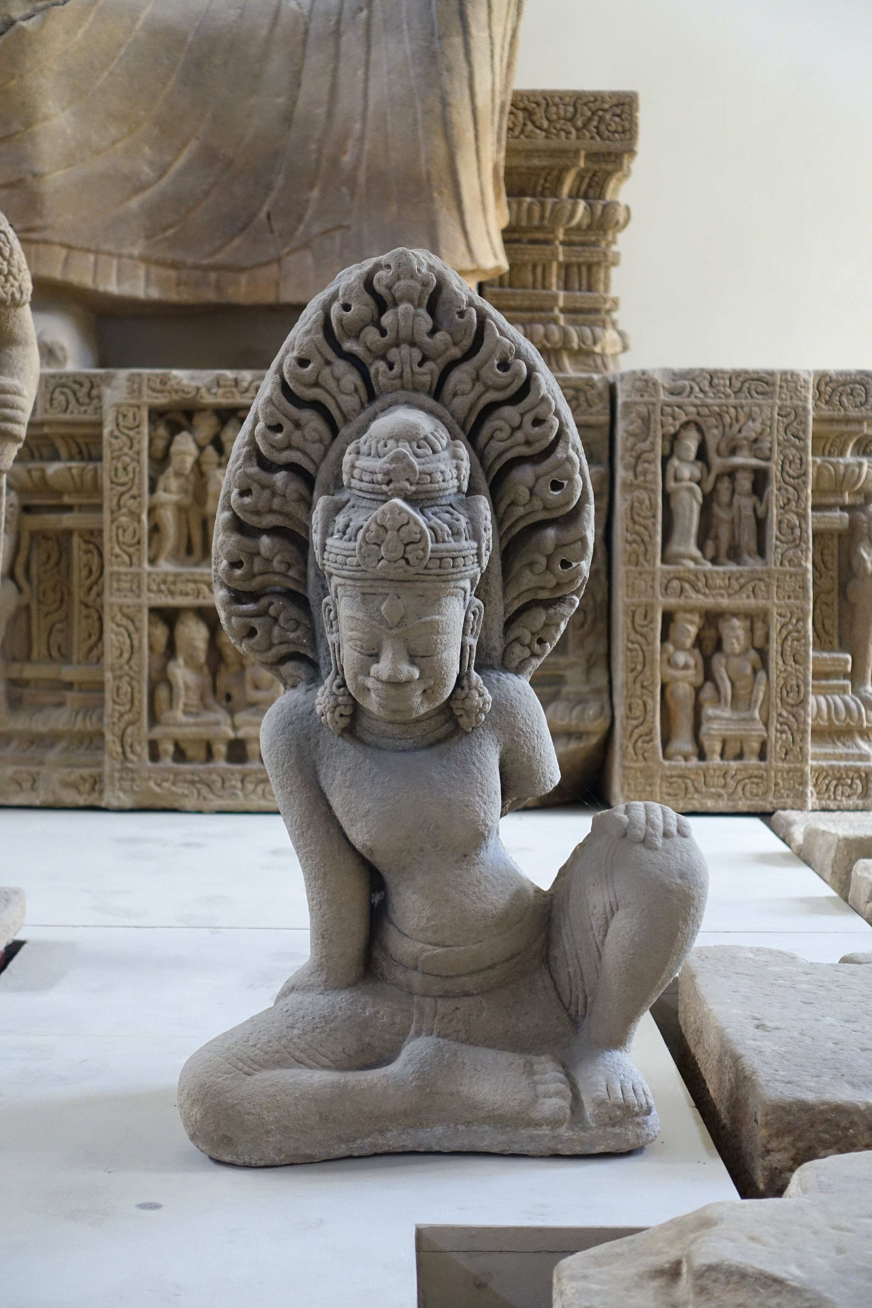 Cham sculpture at the Museum of Cham Sculpture, Da Nang, Vietnam. This artwork is in the public domain because the artist died more than 70 years ago.